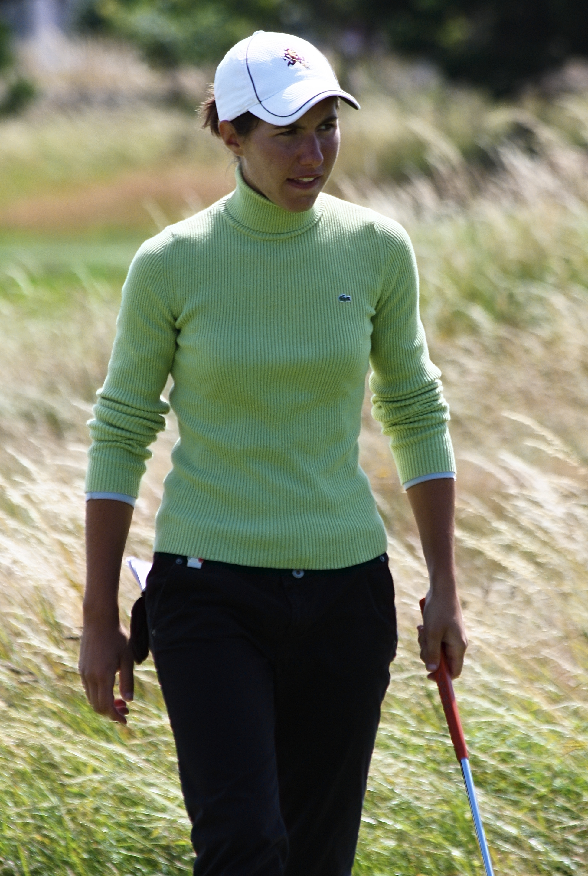 LYTHAM ST ANNES, UNITED KINGDOM - JULY 27: Carlota Ciganda of Spain on the 15th green during first practice round before 2009 Ricoh Women's British Open held at Royal Lytham & St Annes on July 27, 2009 in Lytham St Annes, England. (Photo by Wojciech Migda)